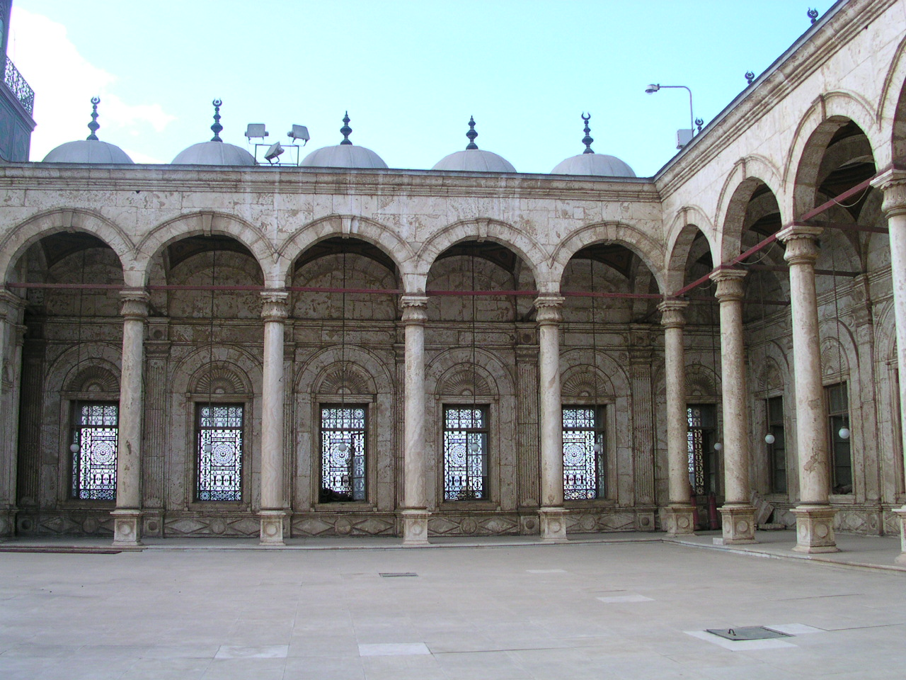 Cairo Citadel Feb 2007. Part of the alabaster covered courtyard of the Muhammad Ali mosque.